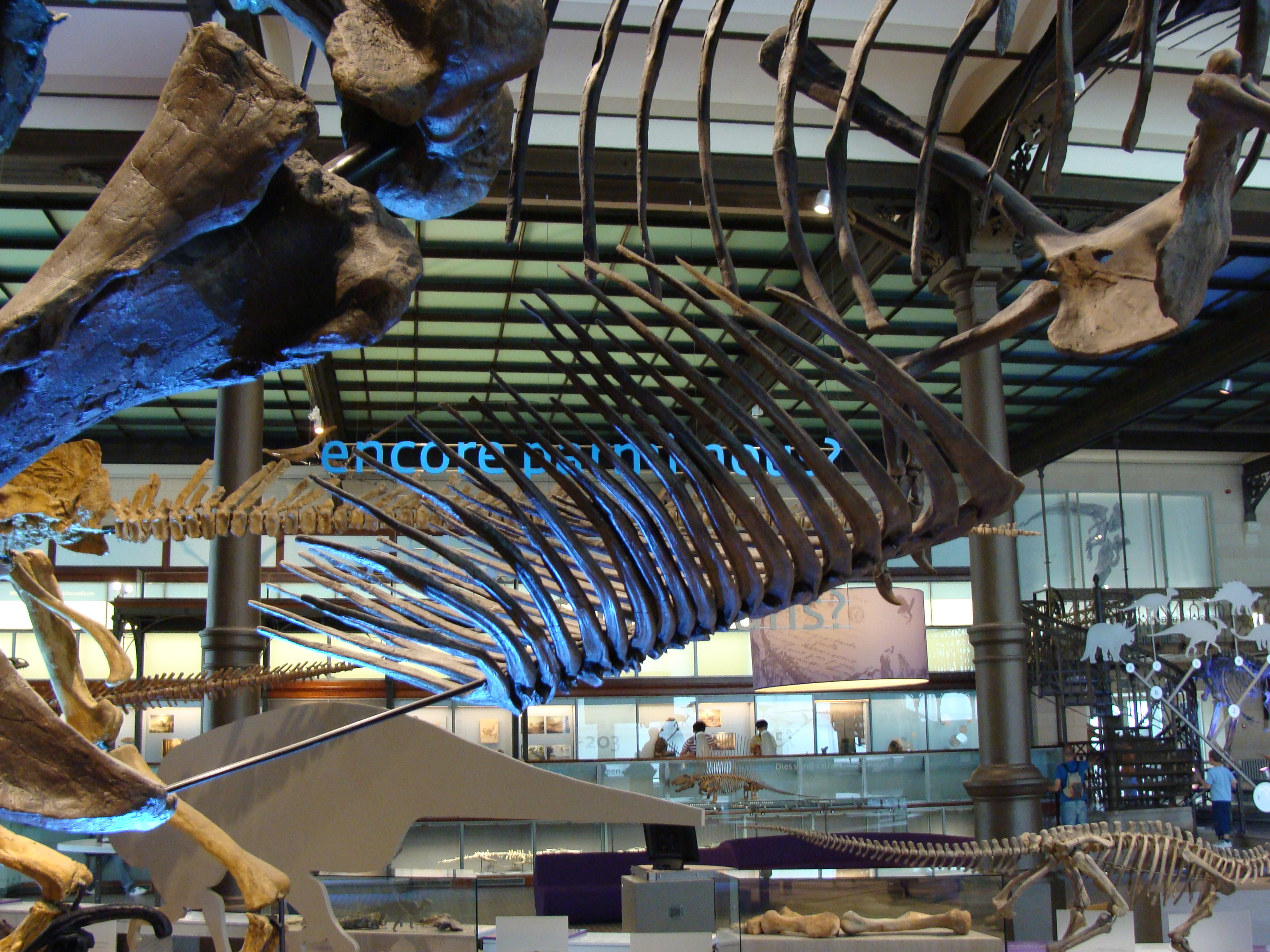 Tyrannosaurus rex gastralia detail, the Royal Belgian Institute of Natural Sciences.